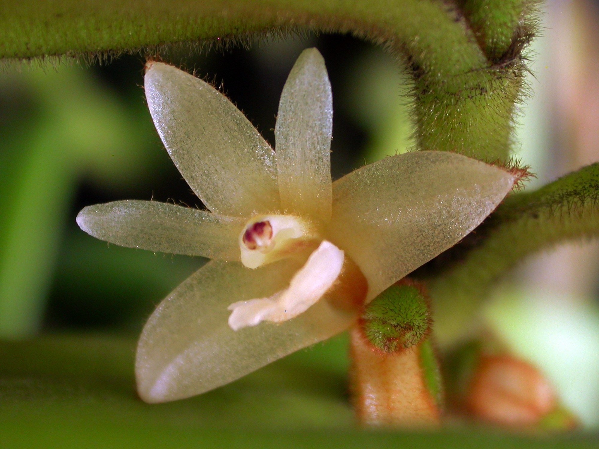 Trichotosia velutina is similar to T. pauciflora but while T. velutina has two rows of pubescent calli that end just before the lateral lobes of the lip, T. pauciflora has only one. Color may vary between deeper and lighter.